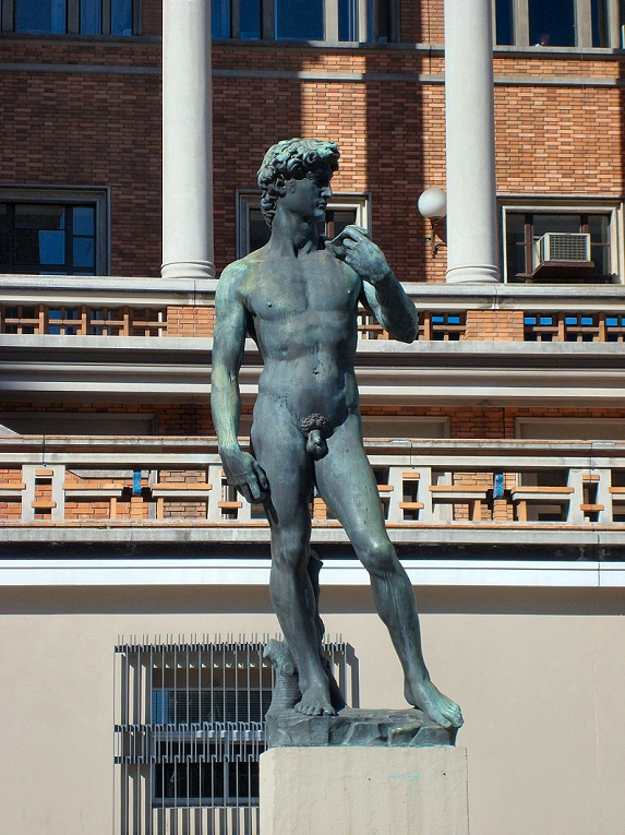 Bronze copy of Michaelangelo's "David" in front of the Palacio Municipal, Montevideo, Uruguay.